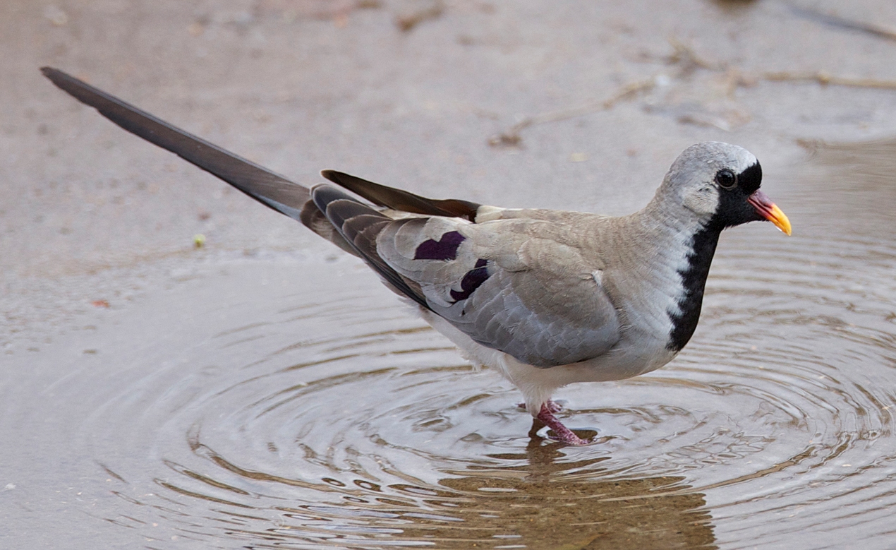 A Namaqua Dove near Kambi ya Tembo, Arusha, Tanzania